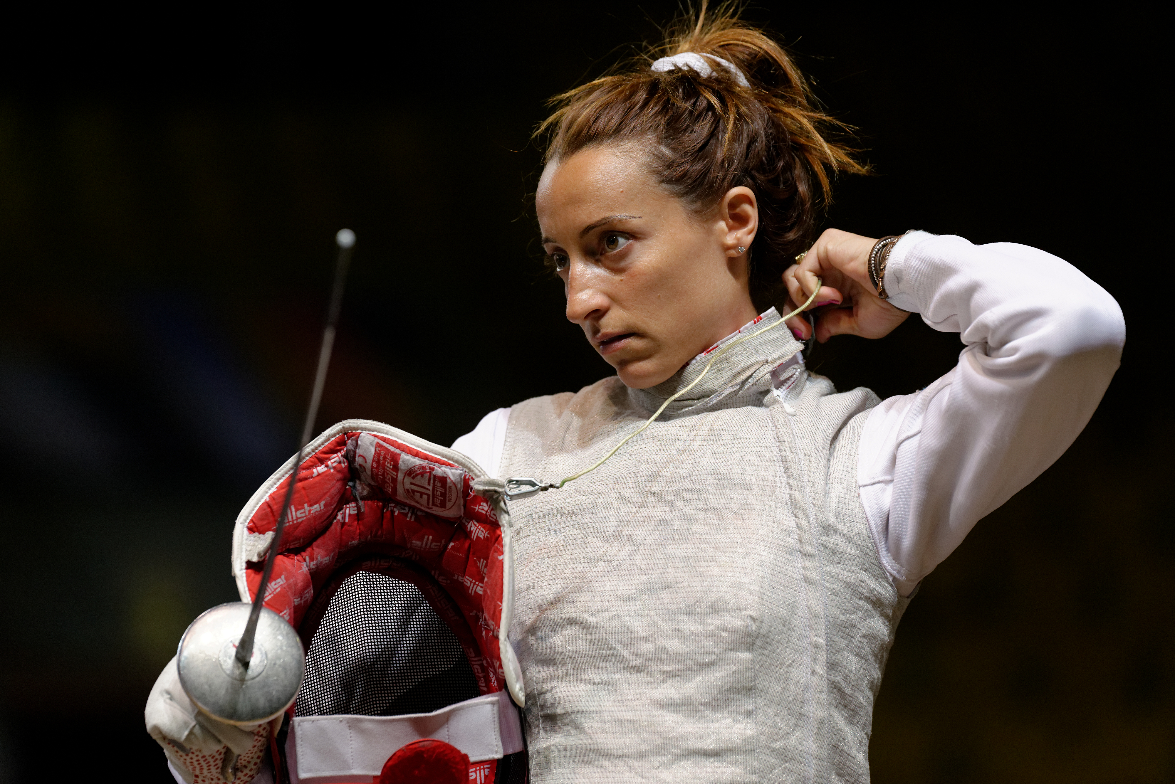 Elisa Di Francisca of Italy during their T16 match against Romania in the women's team foil event at the European Fencing Championships at Rhénus Sport in Strasbourg on 14 June 2014.